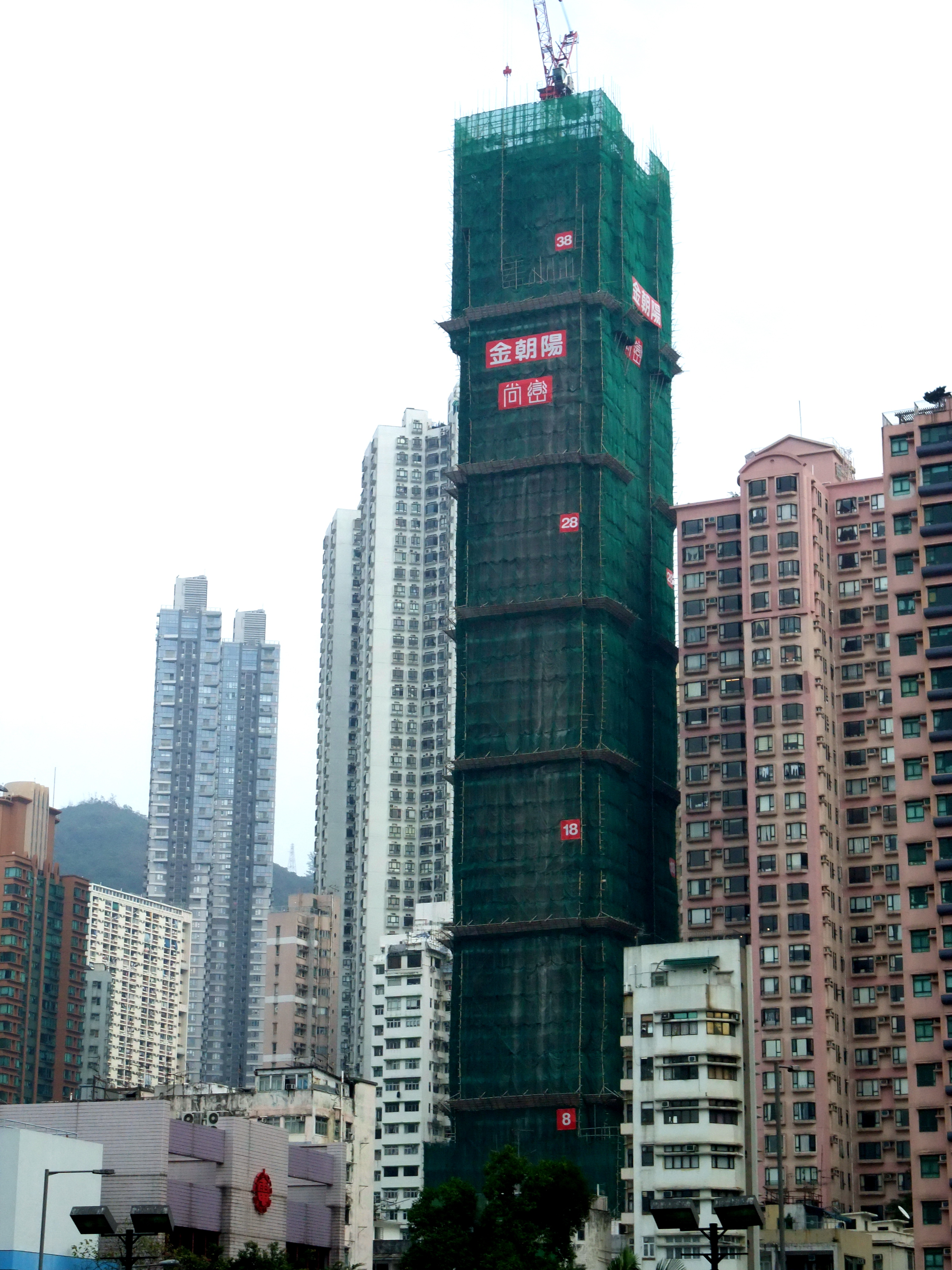 WarrenWoods (23 Warren Street, Causeway Bay, Hong Kong.